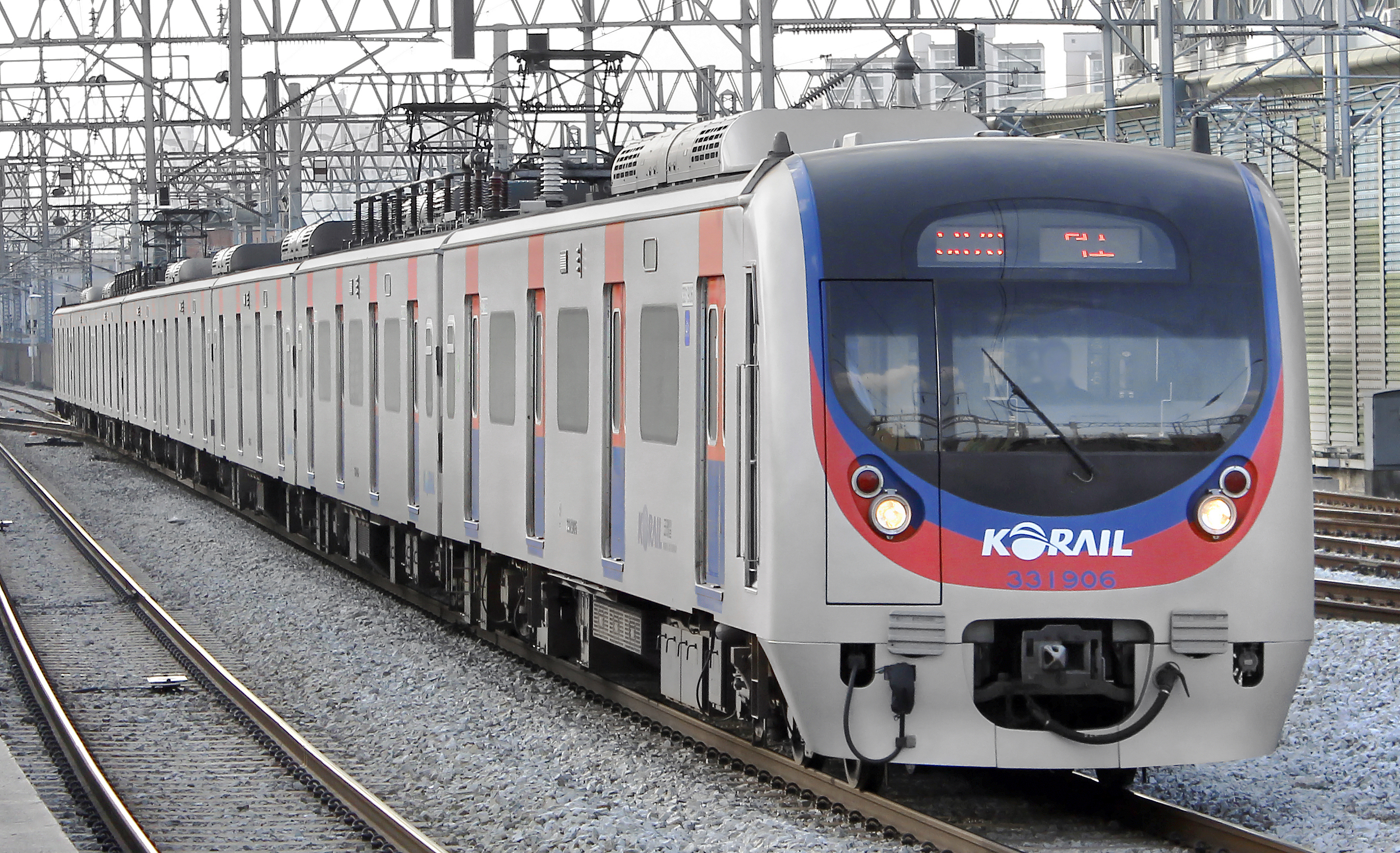 Korail EMU #331X06(8-car trainset) entering Sangbong Station.